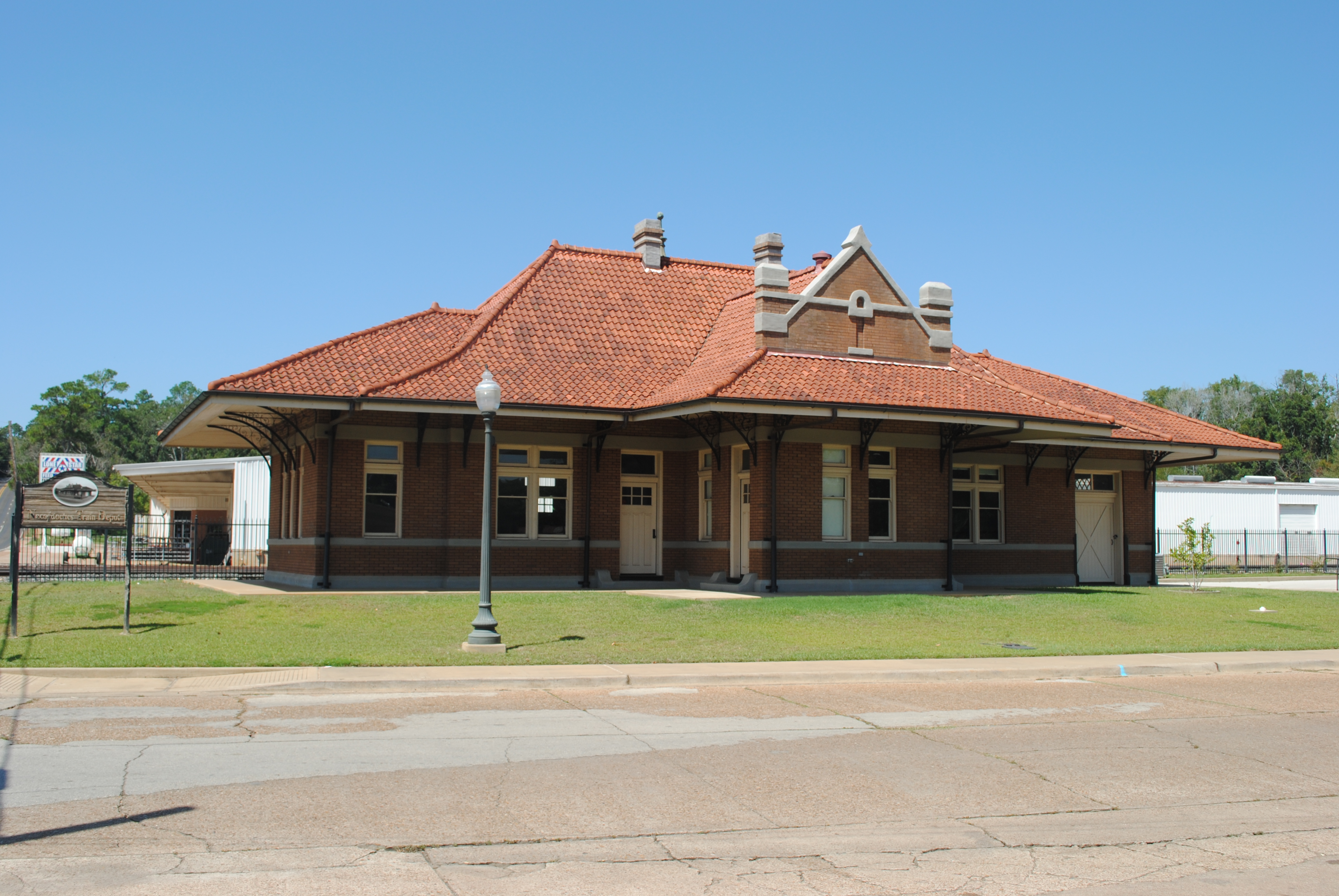 Southern Pacific Railroad Depot